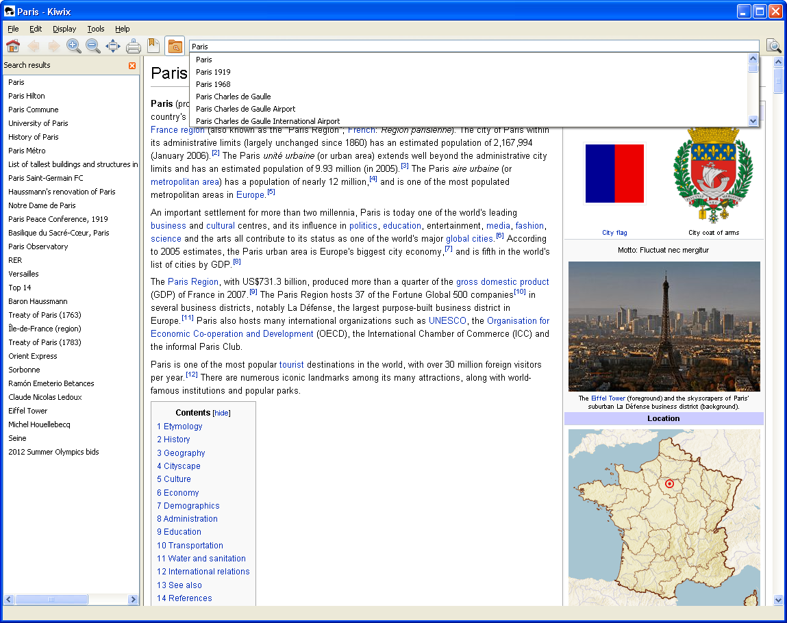 Kiwix 0.9 alpha1 screenshot